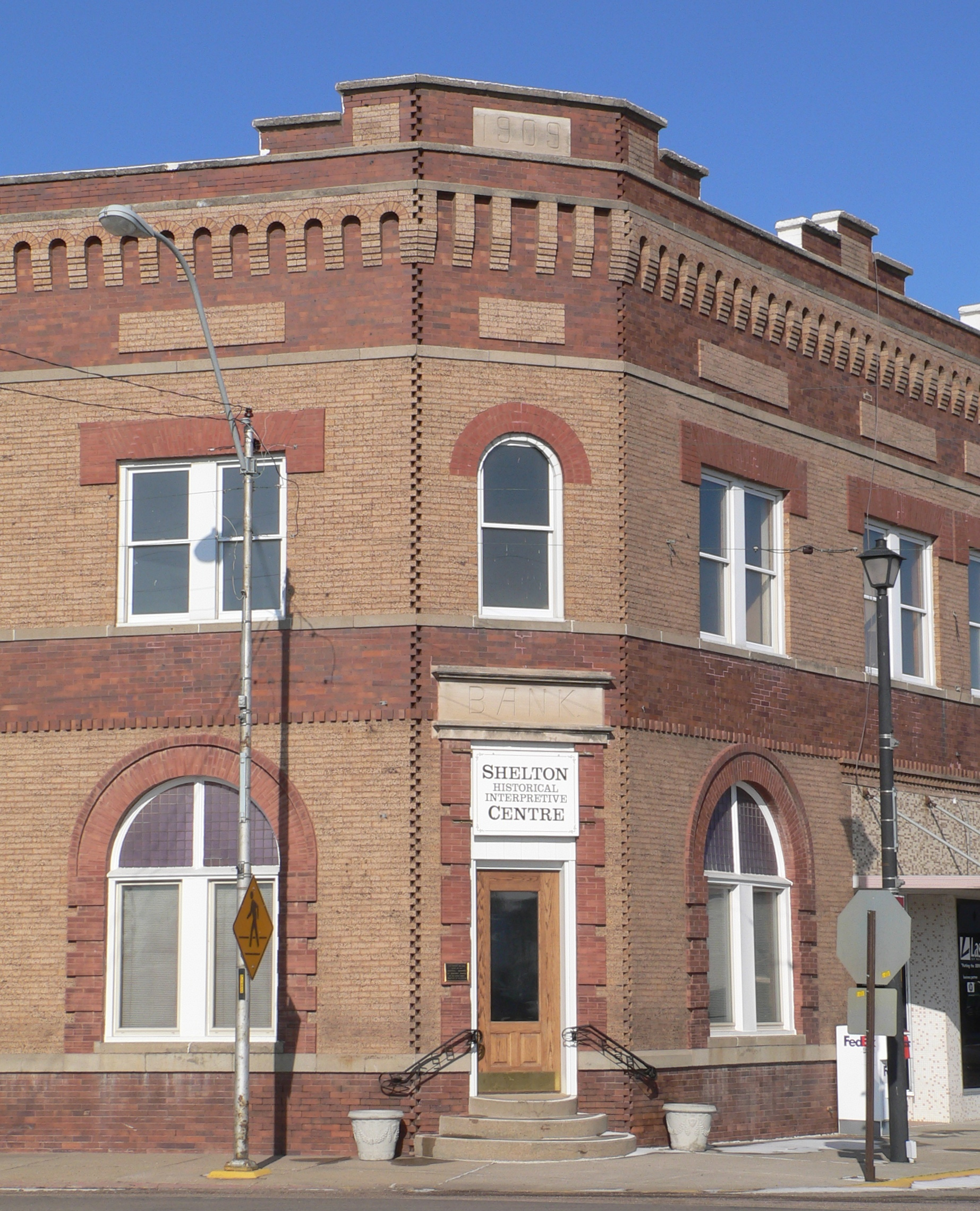 Southeast corner entrance of Shelton Historical Interpretive Center, formerly the Meisner Bank, at the corner of U.S. Highway 30 and C Street in Shelton, Nebraska. The Renaissance Revival building was constructed in 1909; it is listed in the National Register of Historic Places.